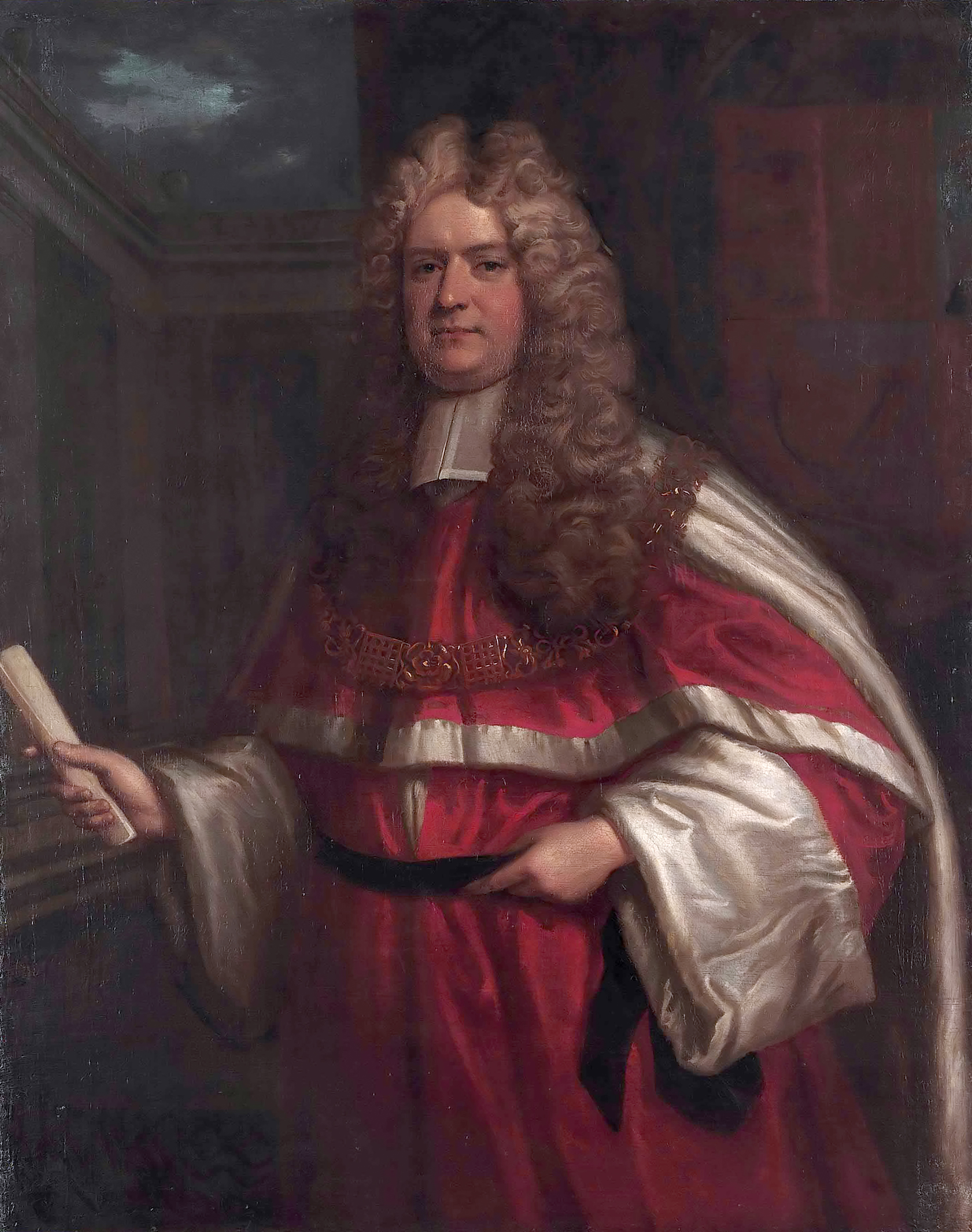 Thomas Powys (1649-1719) oil on canvas 124.5 x 96.5 cm